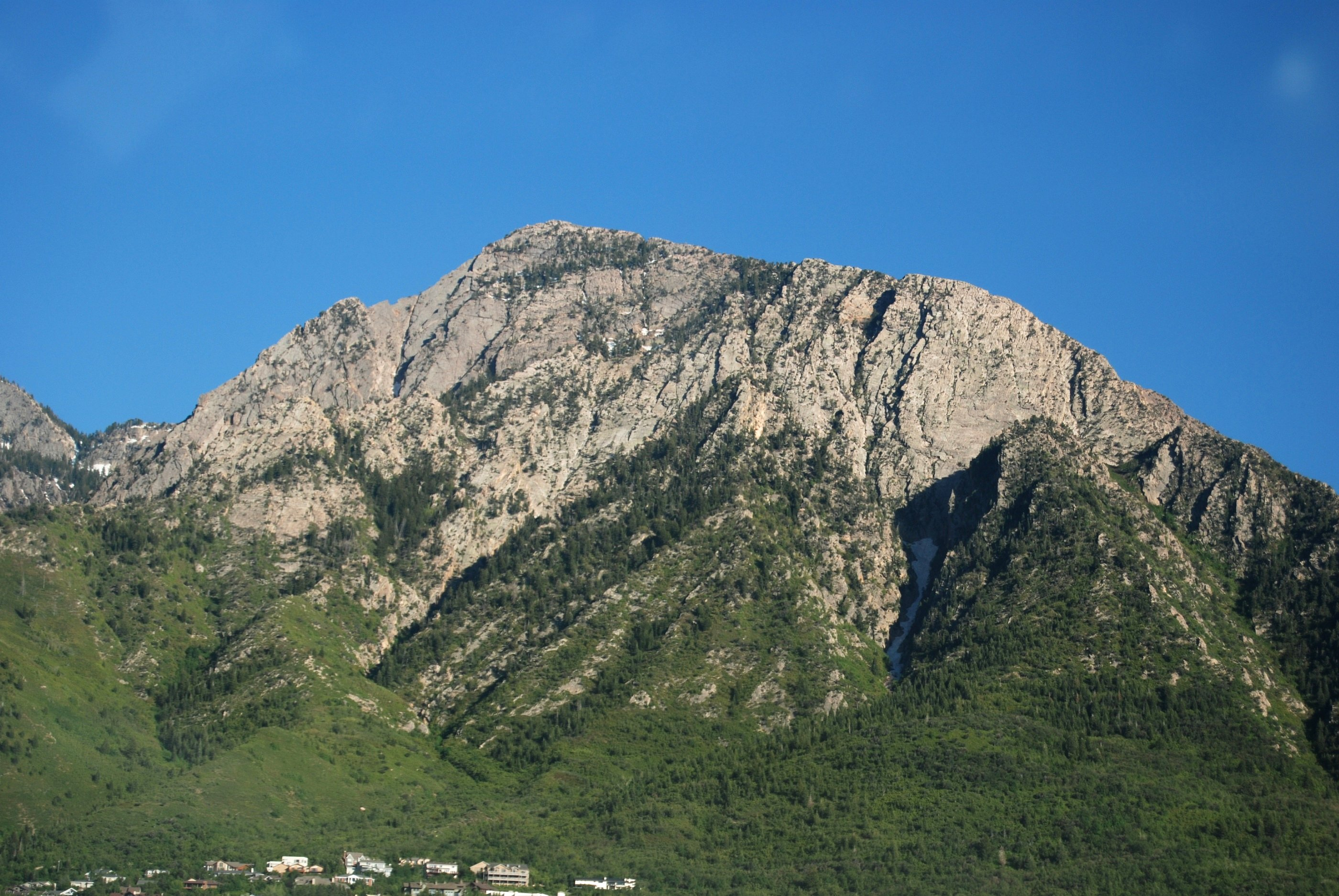 The North/West face of Mount Olympus in Utah along the Wasatch Front.